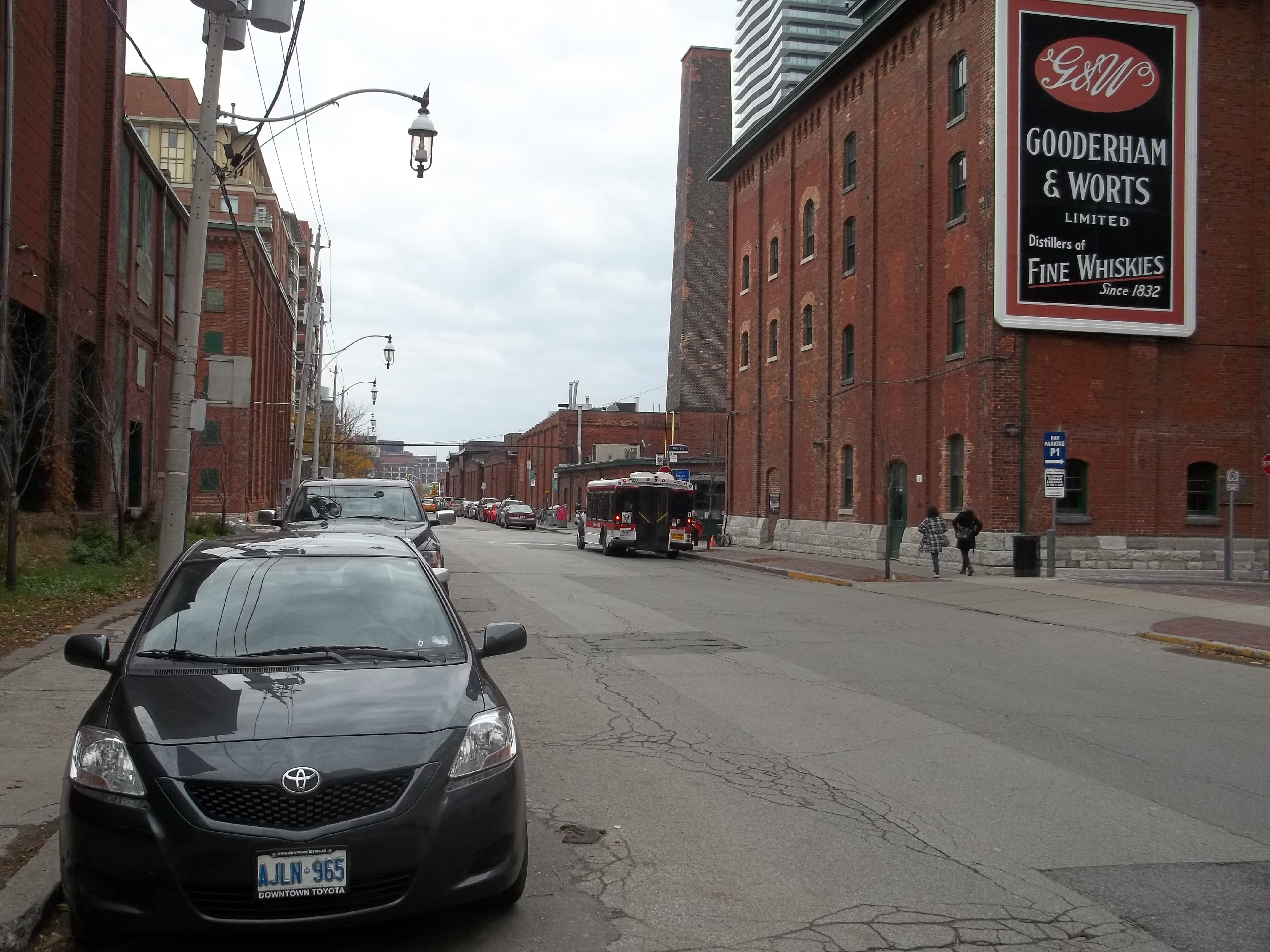 TTC Wheeltrans visits the distillery district on 2014 11 05 (2)